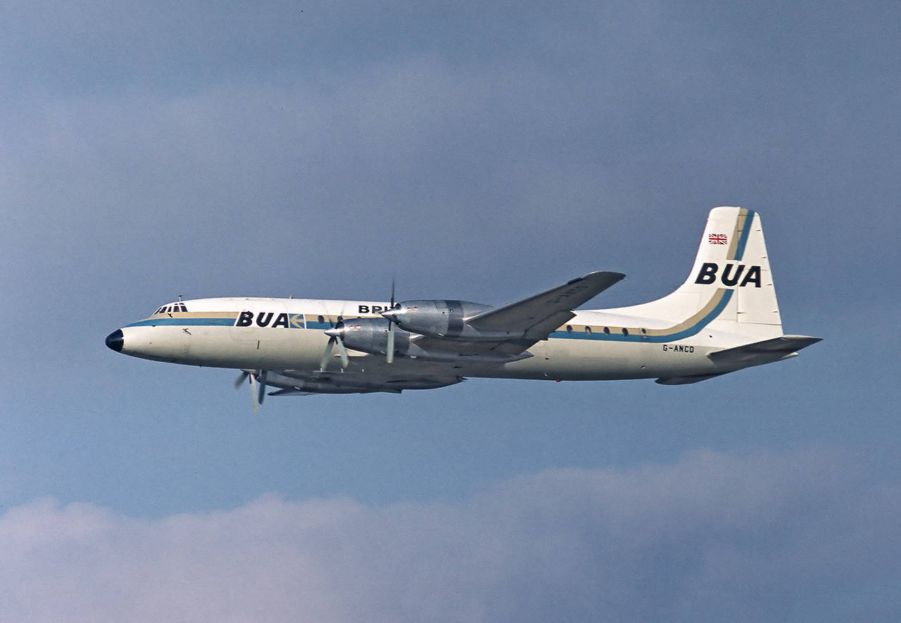 British United Airways Bristol 175 Britannia 307 G-ANCD at Stockholm-Arlanda Airport